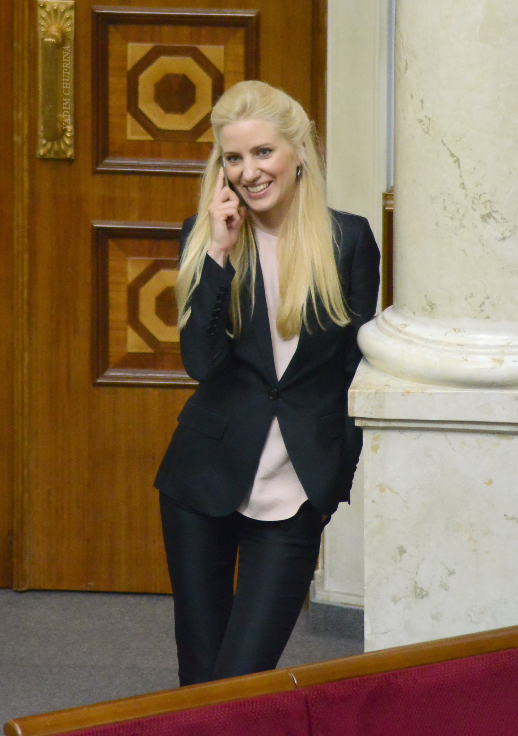 Ukrainian politicians VADIM CHUPRINA